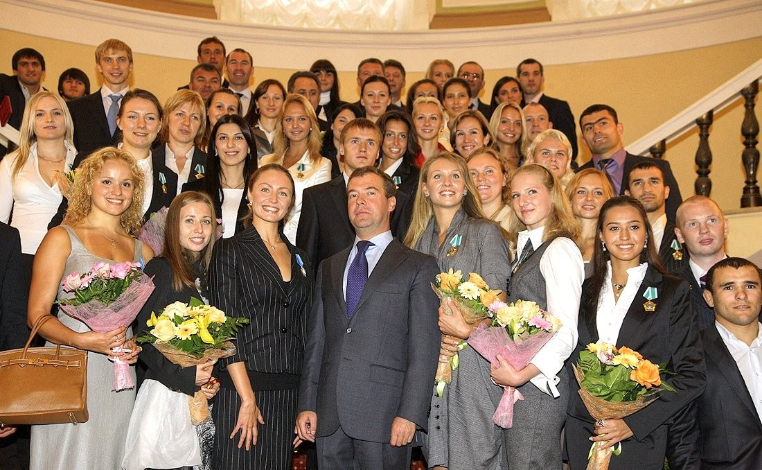 2008 Summer Olympics medal winners in Kremlin